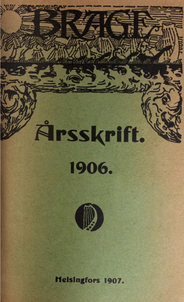 Brage Yearbook cover